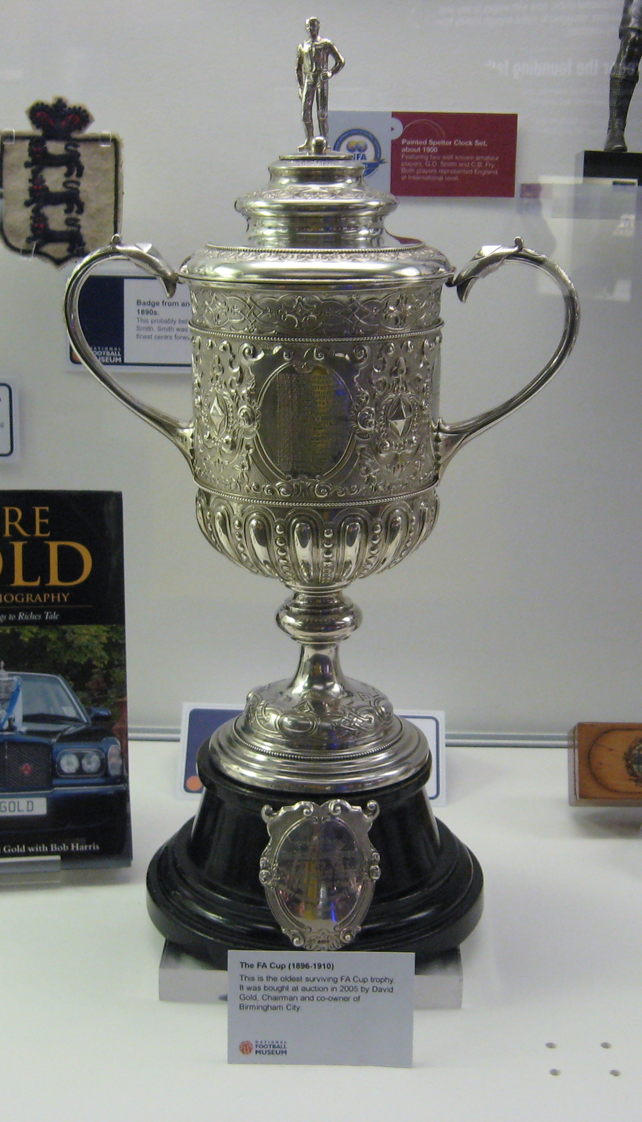 The oldest surviving FA Cup trophy, on display at the National Football Museum, Preston. The trophy was used between 1896 and 1910, being an exact replica of the original trophy, which was stolen and never recovered.